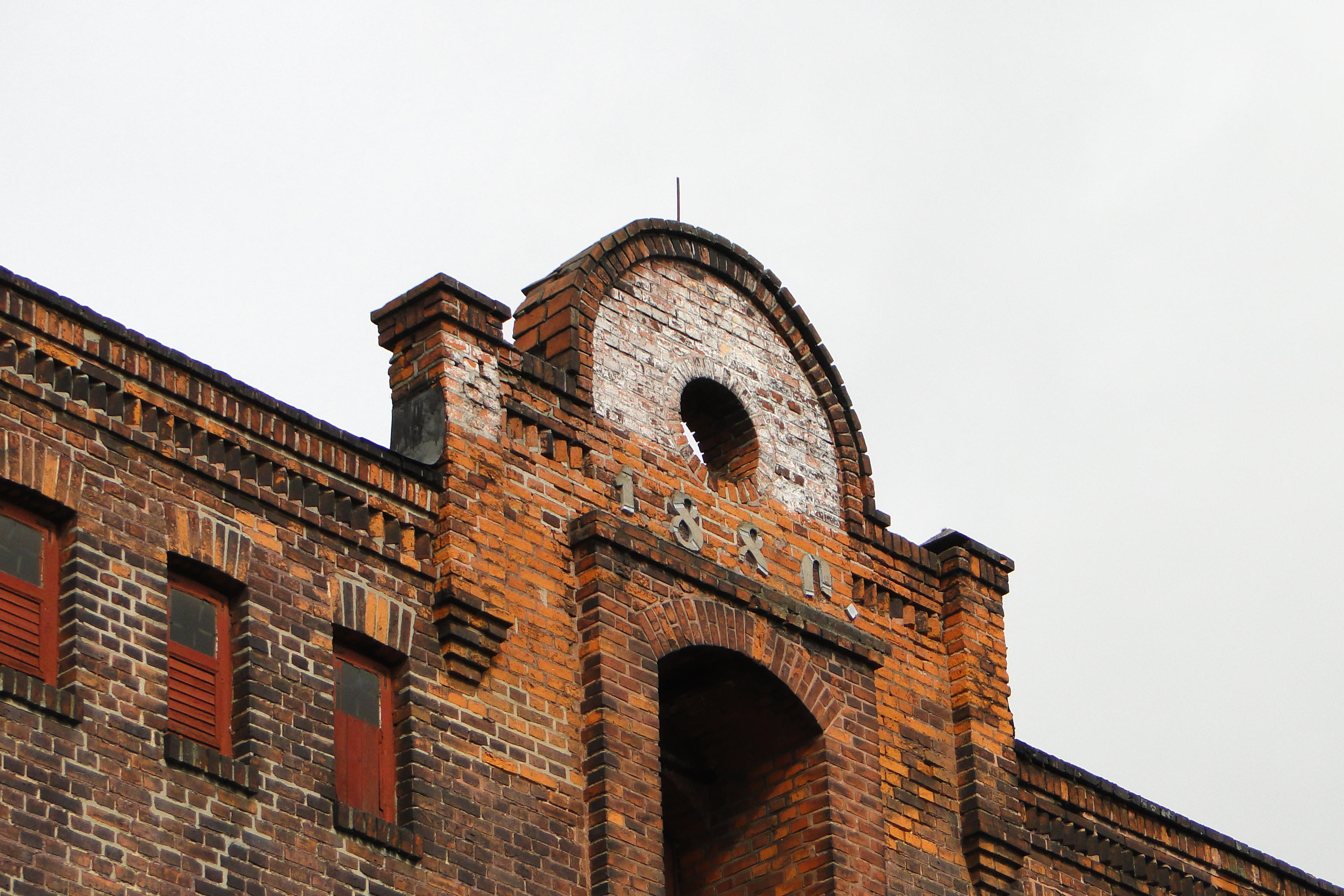 Warehouse in the Severinstraße in Schwerin, Mecklenburg-Vorpommern, Germany